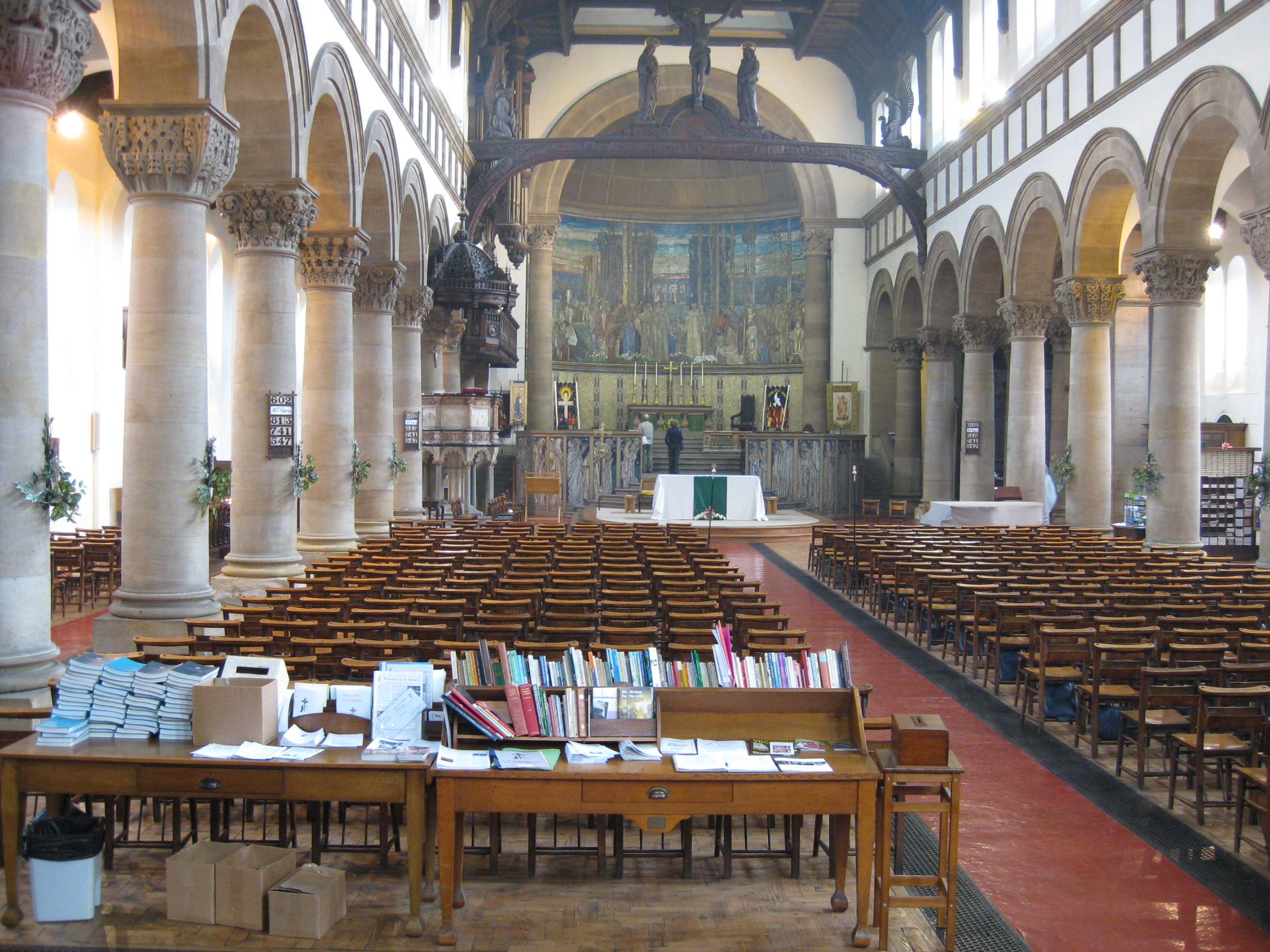 Interior of St Aidan's Church, Leeds, UK. The mosaics at the end are by Frank Brangwyn.